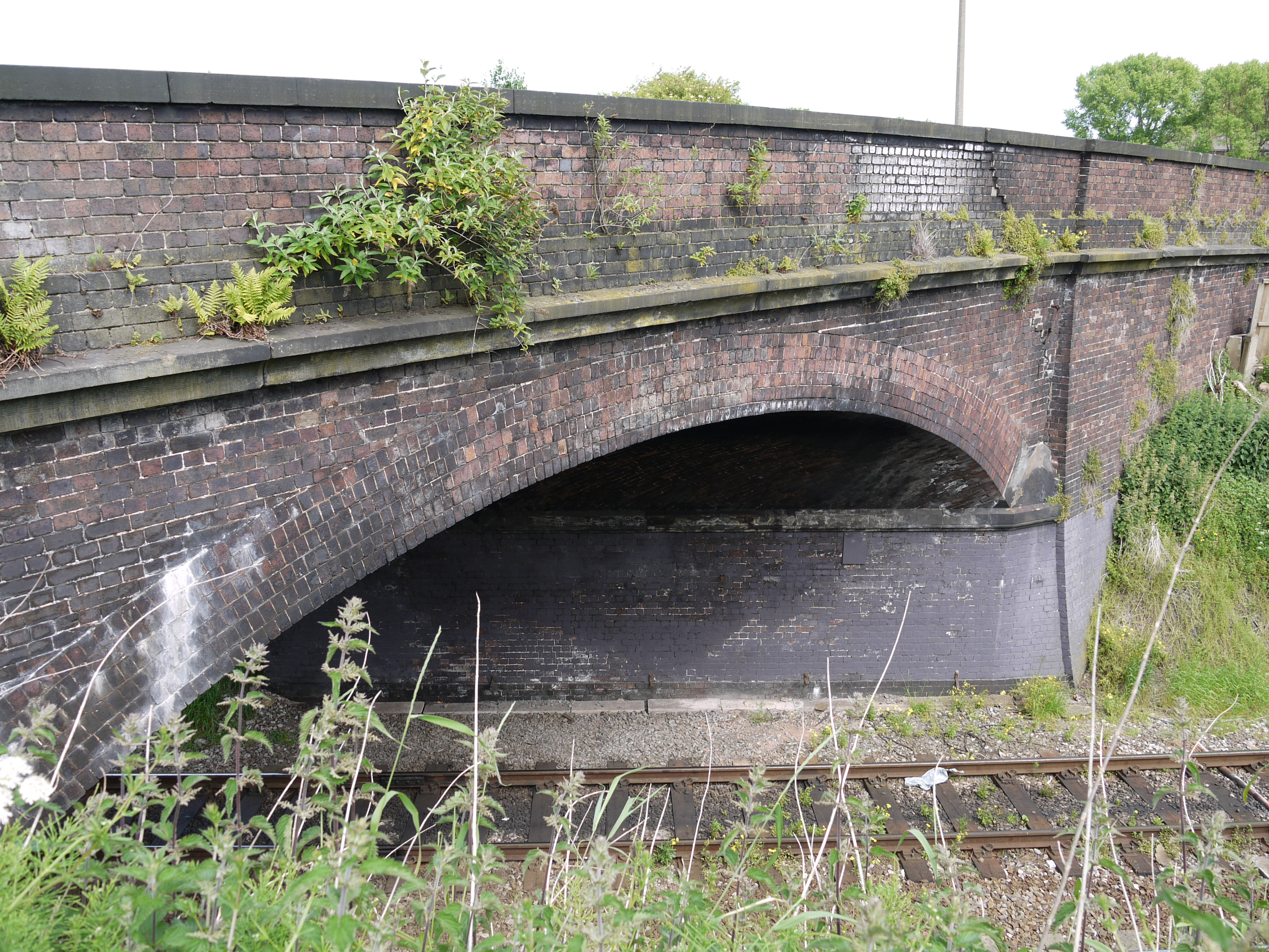 The northernmost of the two brick skew arch bridges that carry Hoole Lane over the railway lines to the east of Chester station, looking square on towards the northern abutment.